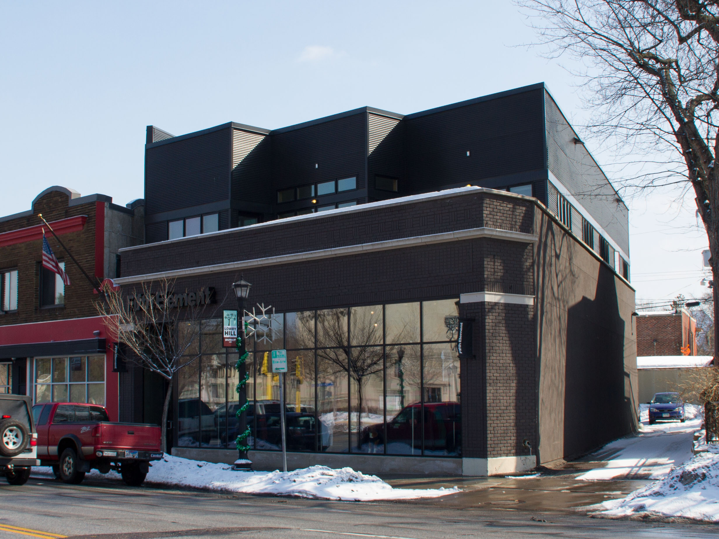 Fifth Element, an independent Hip Hop retail store owned and run by Rhymesayers Entertainment which is also headquartered in the building, Minneapolis, Minnesota, USA.